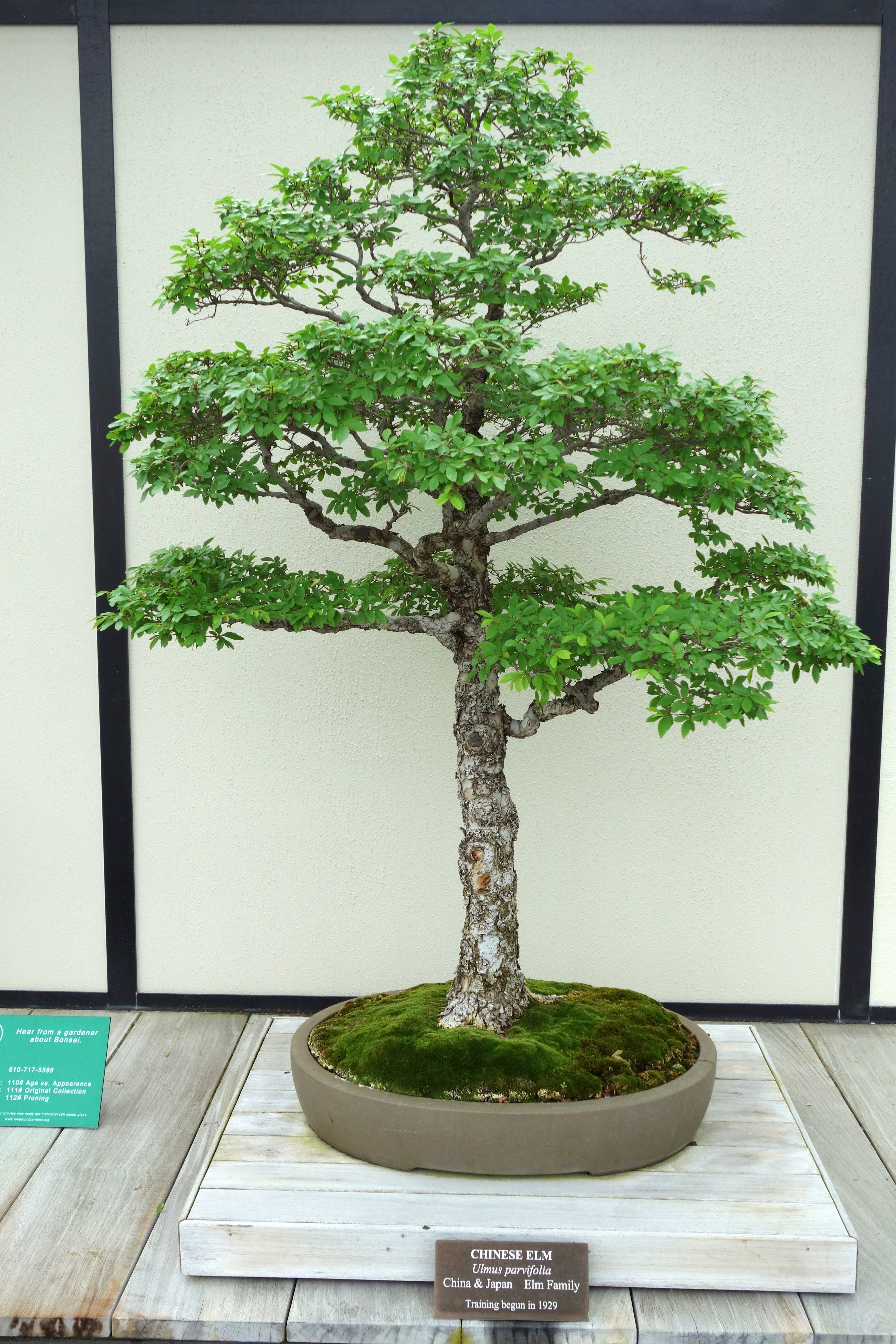 Bonsai in Longwood Gardens, 1001 Longwood Rd, Kennett Square, Pennsylvania, USA.